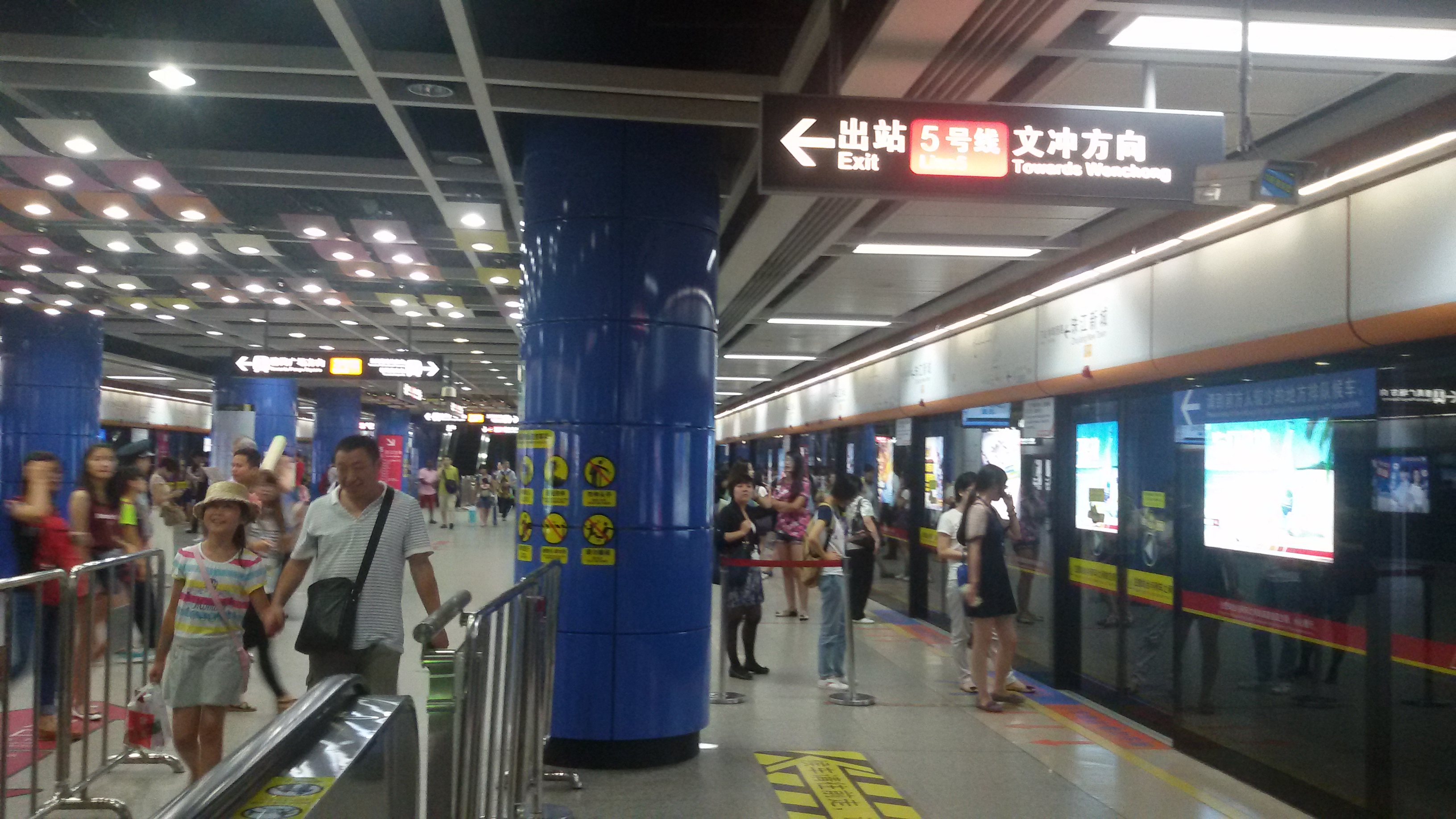 Station Platform for Zhujiang New Town Station at Line 3 in Guangzhou Metro. 粵語: 廣州地鐵3號綫嘅珠江新城站嘅站台